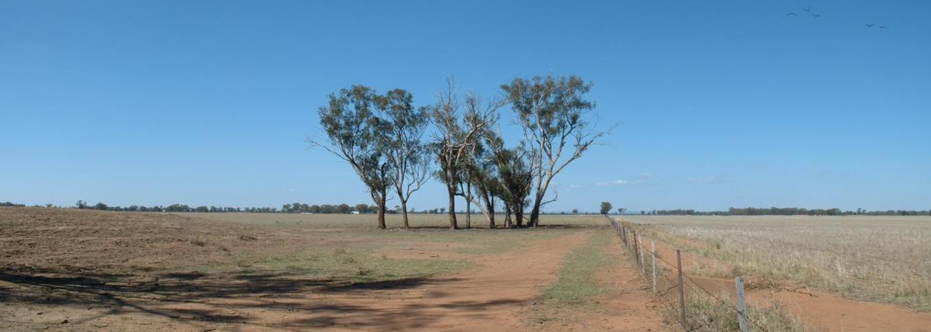 A wide view of Billabong Creek, the site of Australian bushranger, Ben Hall's capture and death. Ben was shot dead in the group of trees. The creek is to the left and not in visible in this picture. It is about 20 kilometres north west of Forbes, New South Wales.